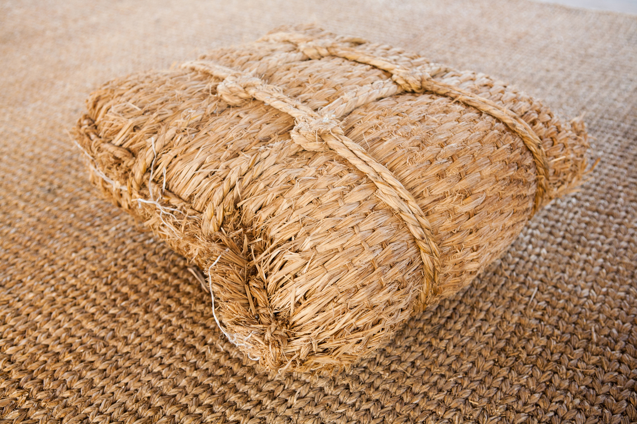 Gamani (straw bag)